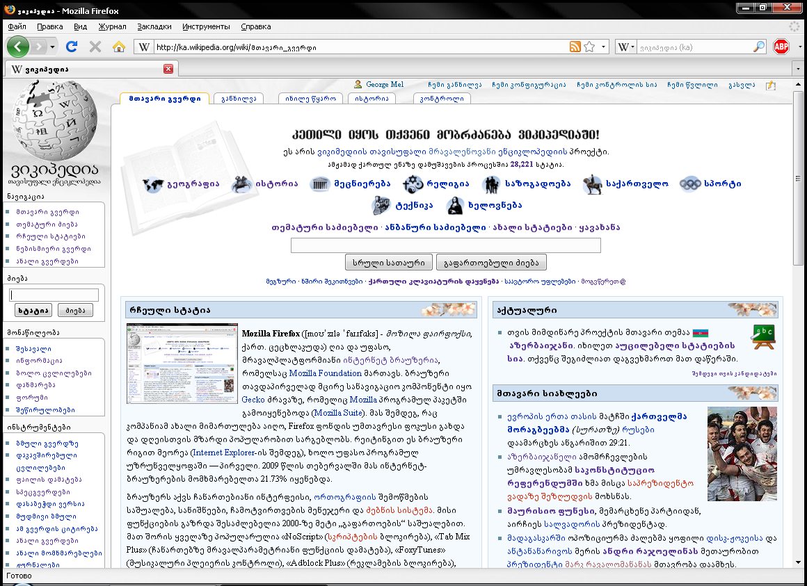 Mozilla Firefox version 3 displaying the Wikipedia Main Page